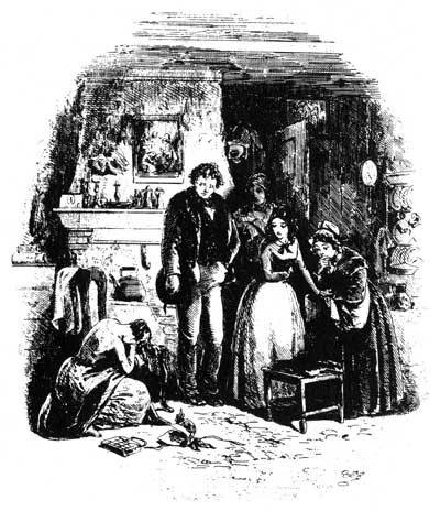 David Copperfield, Martha by Phiz